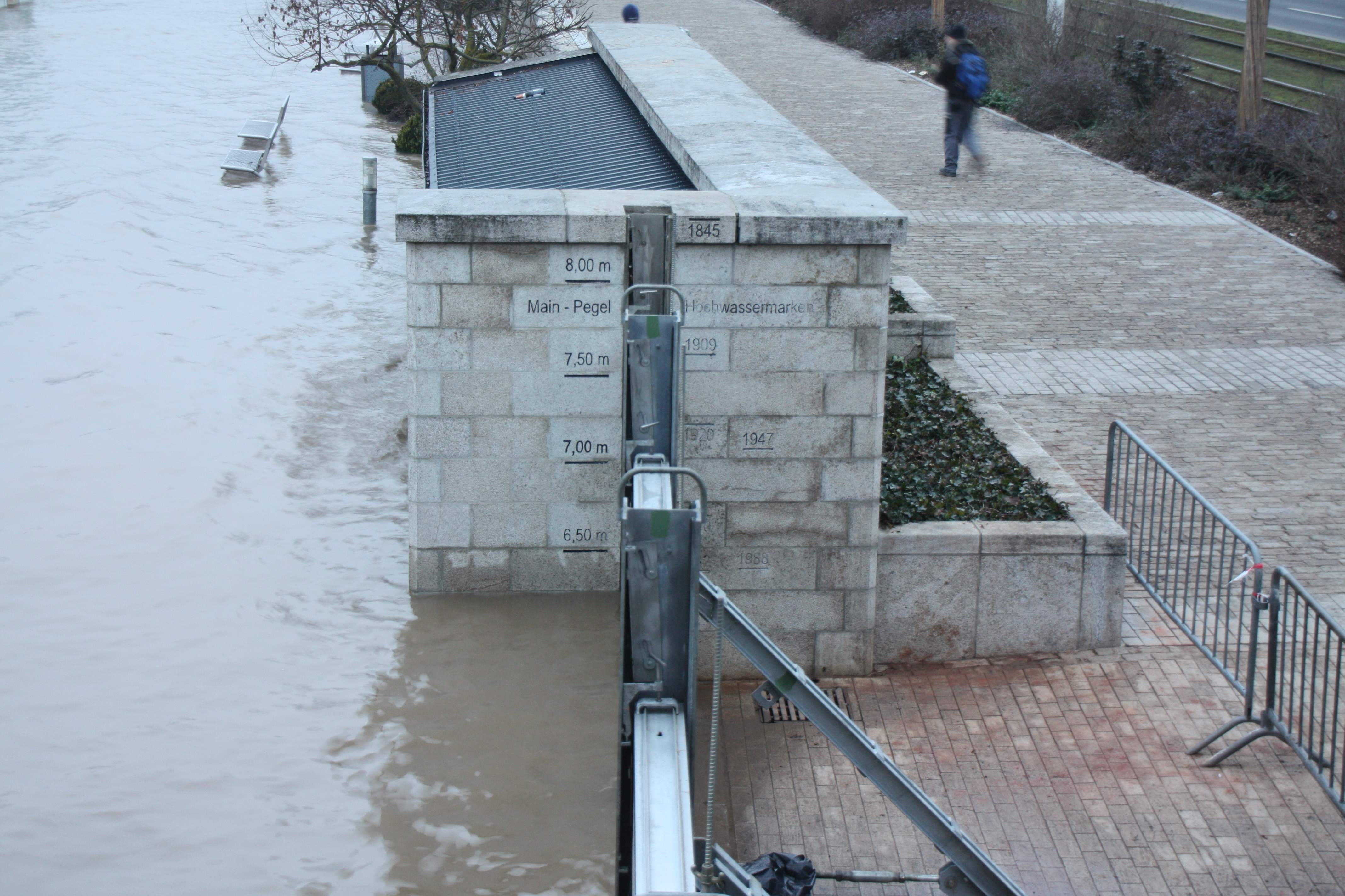 River Main bursting its banks in Würzburg in January 2011, flood marker on the flood protection at the crane "Alter Kranen"